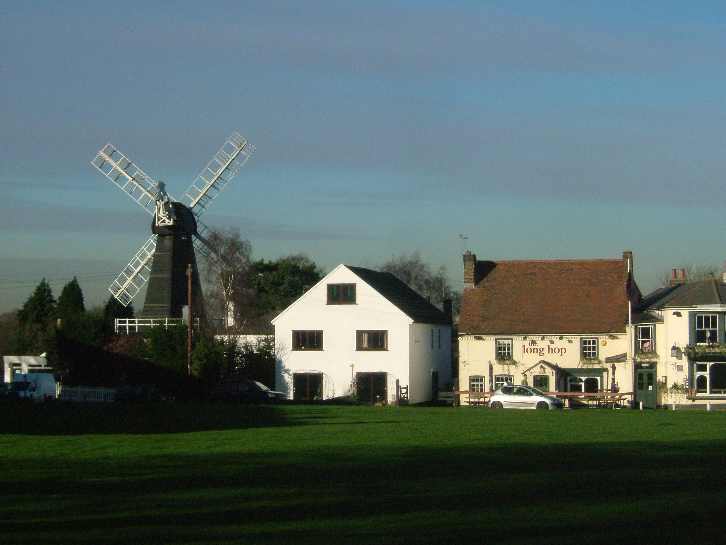 Meopham in Kent, is a linear village in Kent, England. The mill was built in 1801 by the Killick Brothers from Strood. The Long Hop pub and the windmill on Meopham Green. Cricket is played here in summer. The name of the pub is a pun on a cricketing term and a reference to the hops that were grown locally.